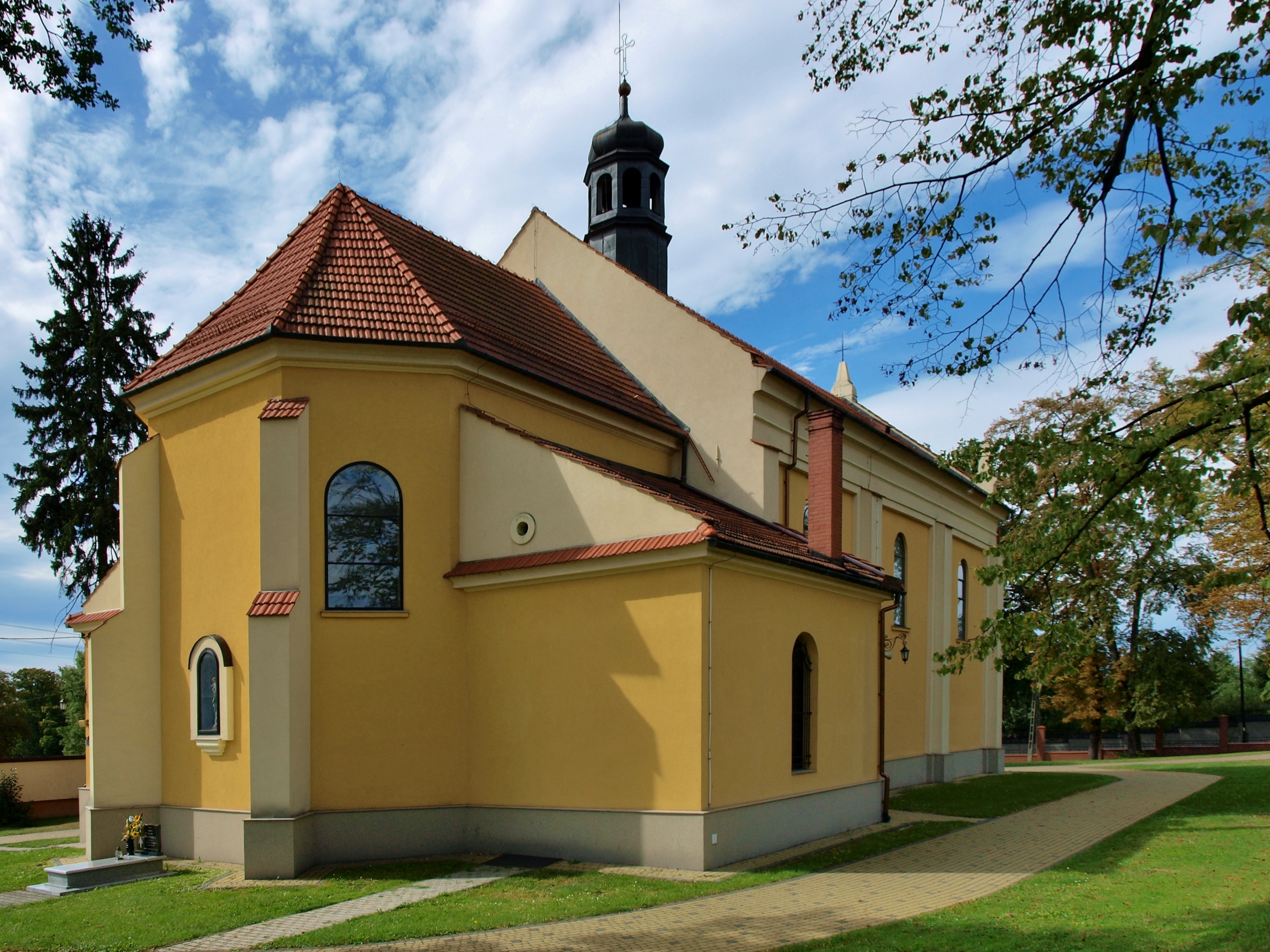 Kraków Wróblowice - Parish Church of Transfiguration of Lord